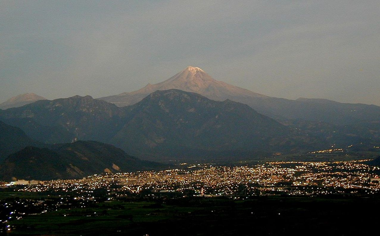 Pico de Orizaba before dawn, with city lights